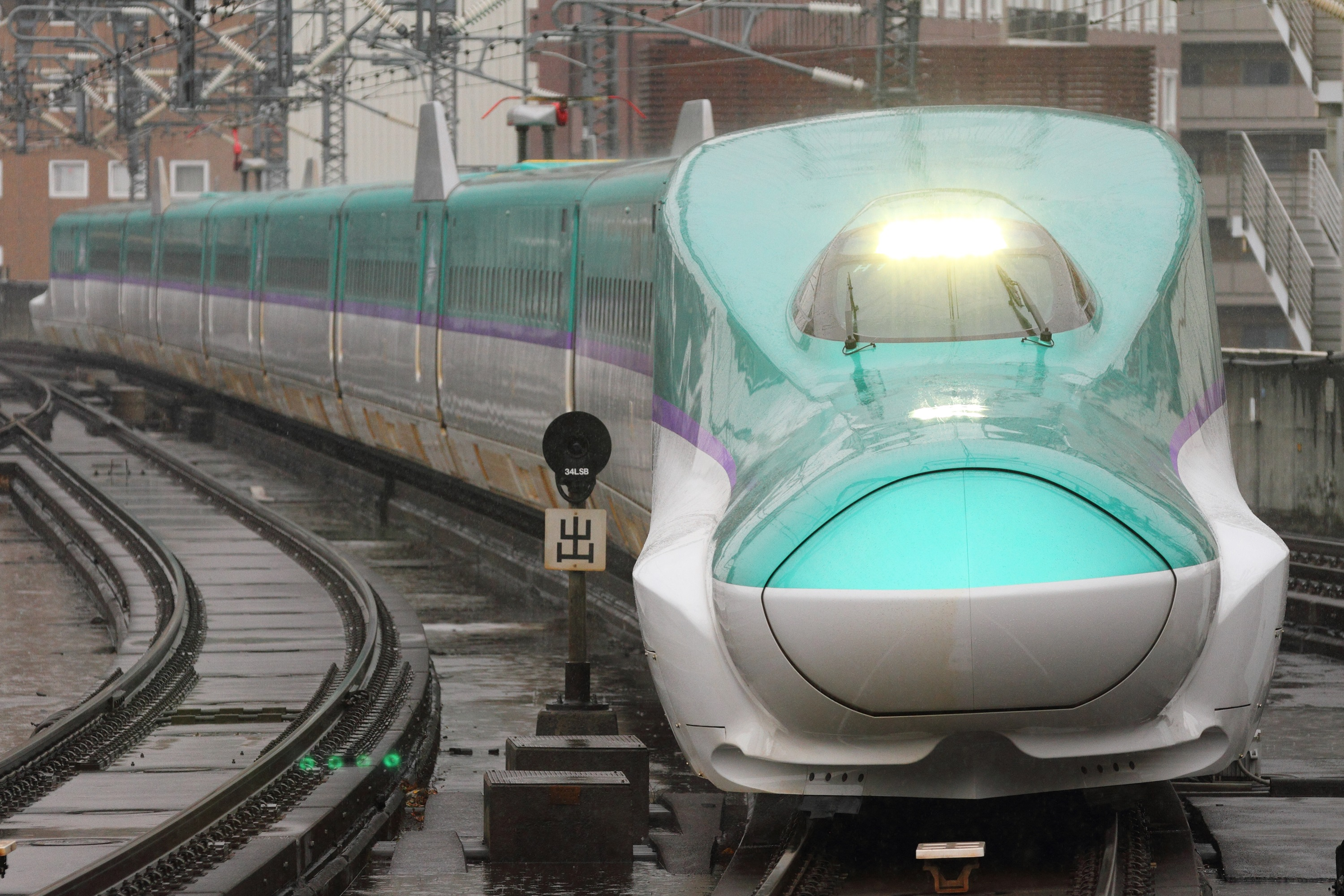 JR Hokkaido H5 series shinkansen set H1 approaching Sendai Station on a test run